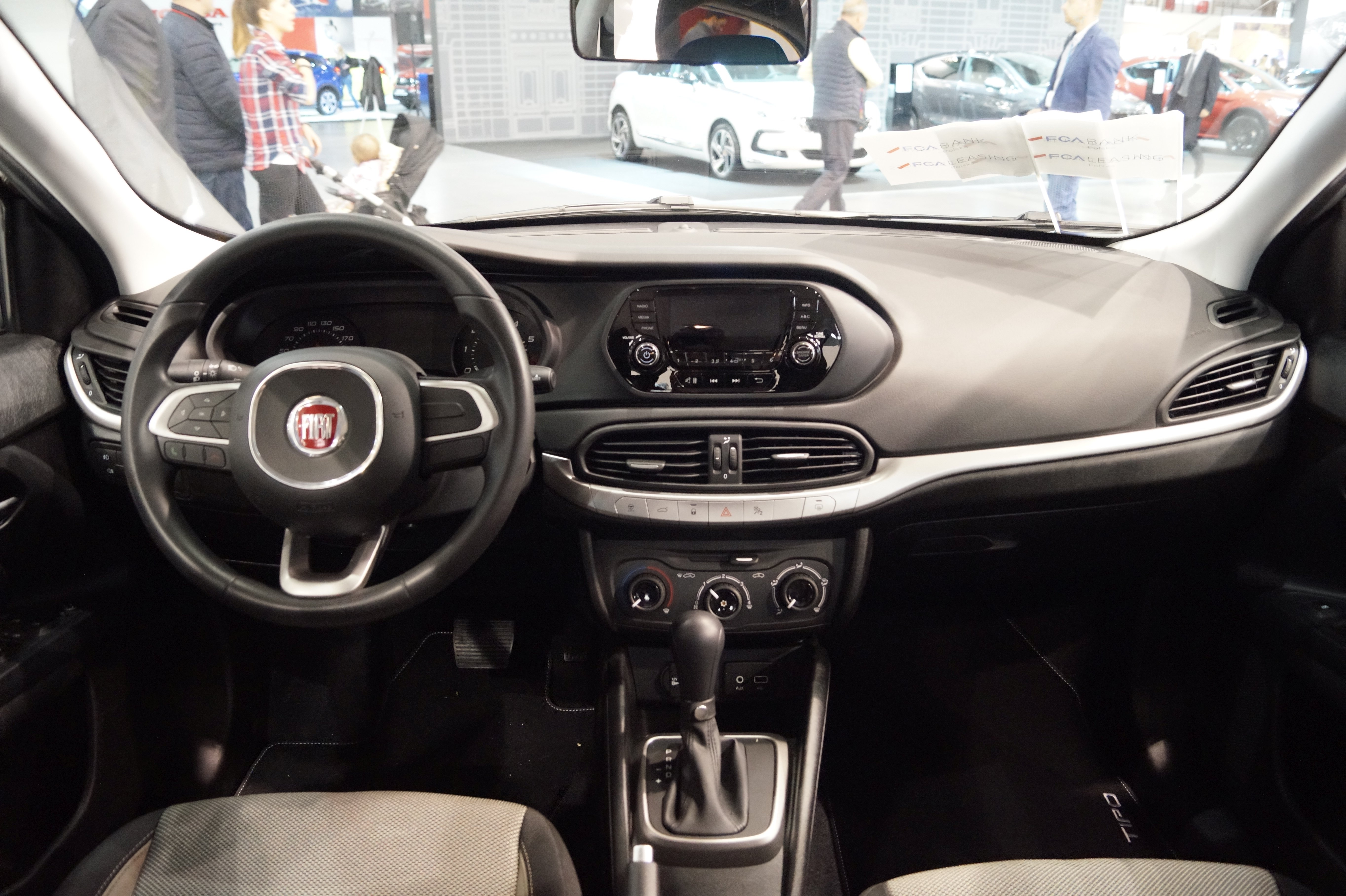 The making of this document was supported by Wikimedia Polska Association, within Wikigrant no. WG 2016-10. English | polski | +/− Wnętrze Fiata Tipo na Motor Show Poznań 2016